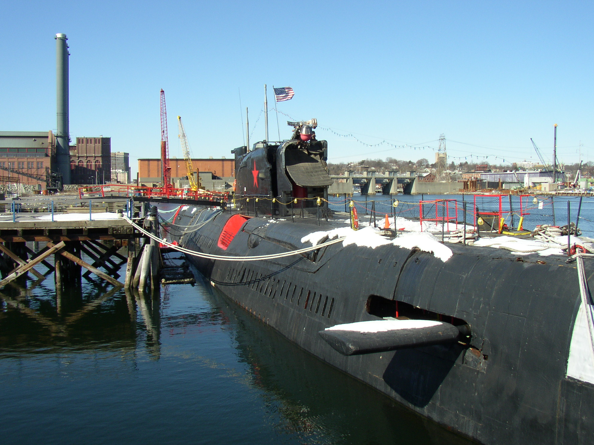 Soviet submarine K-77, a decommissioned Juliett-class cruise missile submarine, moored at Providence, Rhode Island. It was on display at Collier Point Park from August 2002 as a part of the Russian Sub Museum but sank during a storm in April 2007. Was recovered and sold for scrap in December 2008.